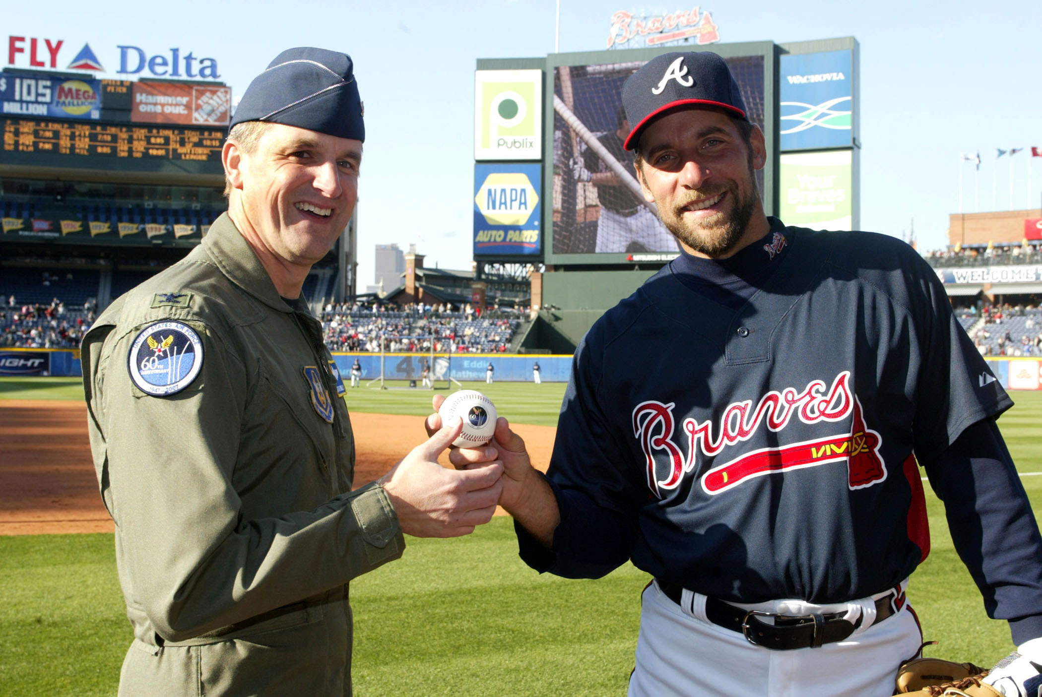 Col. Heath Nuckolls along with Atlanta Braves pitcher John Smoltz present a baseball that will make a trip around the world commemorating the Air Force's 60th Anniversary at the April 6 opening home game at Turner Field in Atlanta. The baseball will return to Turner Field during a September home game. The Heritage to Horizons events throughout year lead up to Atlanta Air Force Week, hosted by Air Force Reserve Command Oct. 8-14. Colonel Nuckolls is the commander of the Air Force Reserve's 94th Airlift Wing at Dobbins Air Reserve Base, Ga [1]